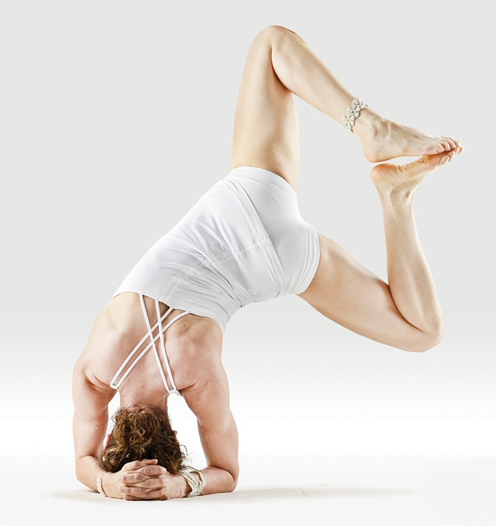 Mr-yoga-sideways-bound-angle-headstand-1